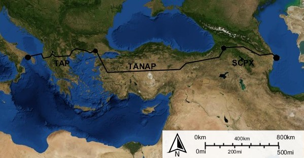 This picture describes the layout of the different pipelines in the Southern Gas Corridor.